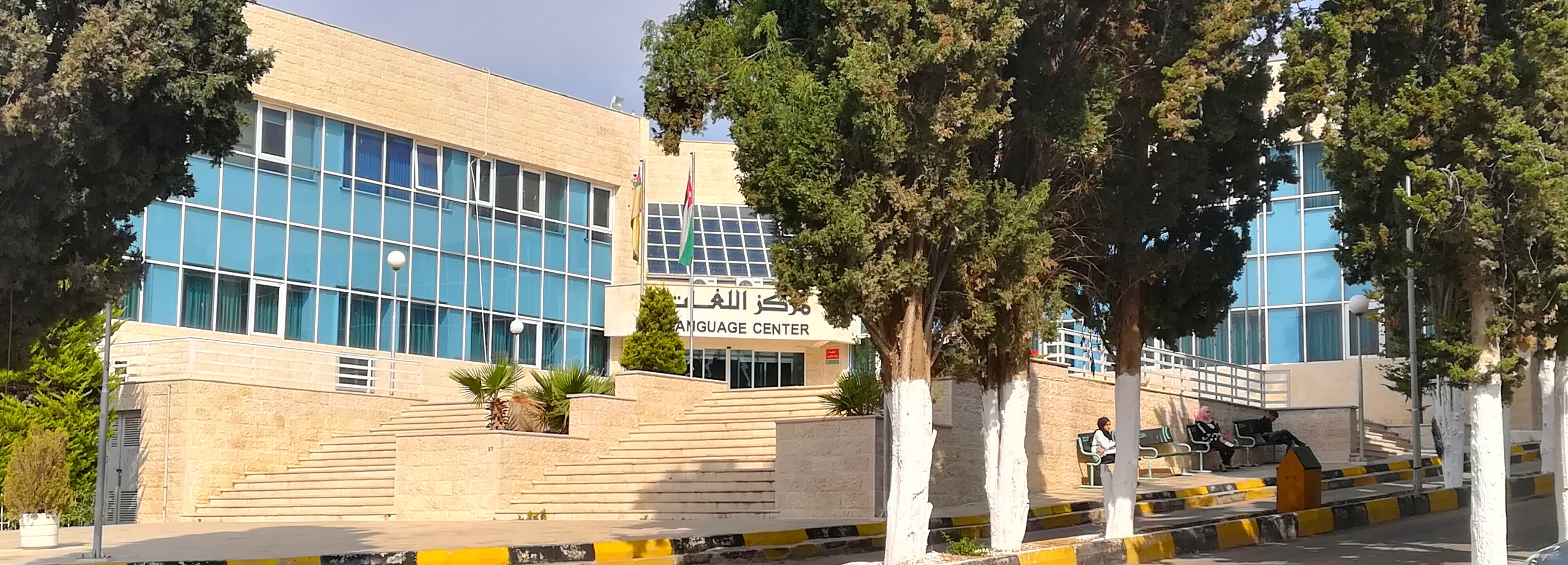 Language Center in University of Jordan